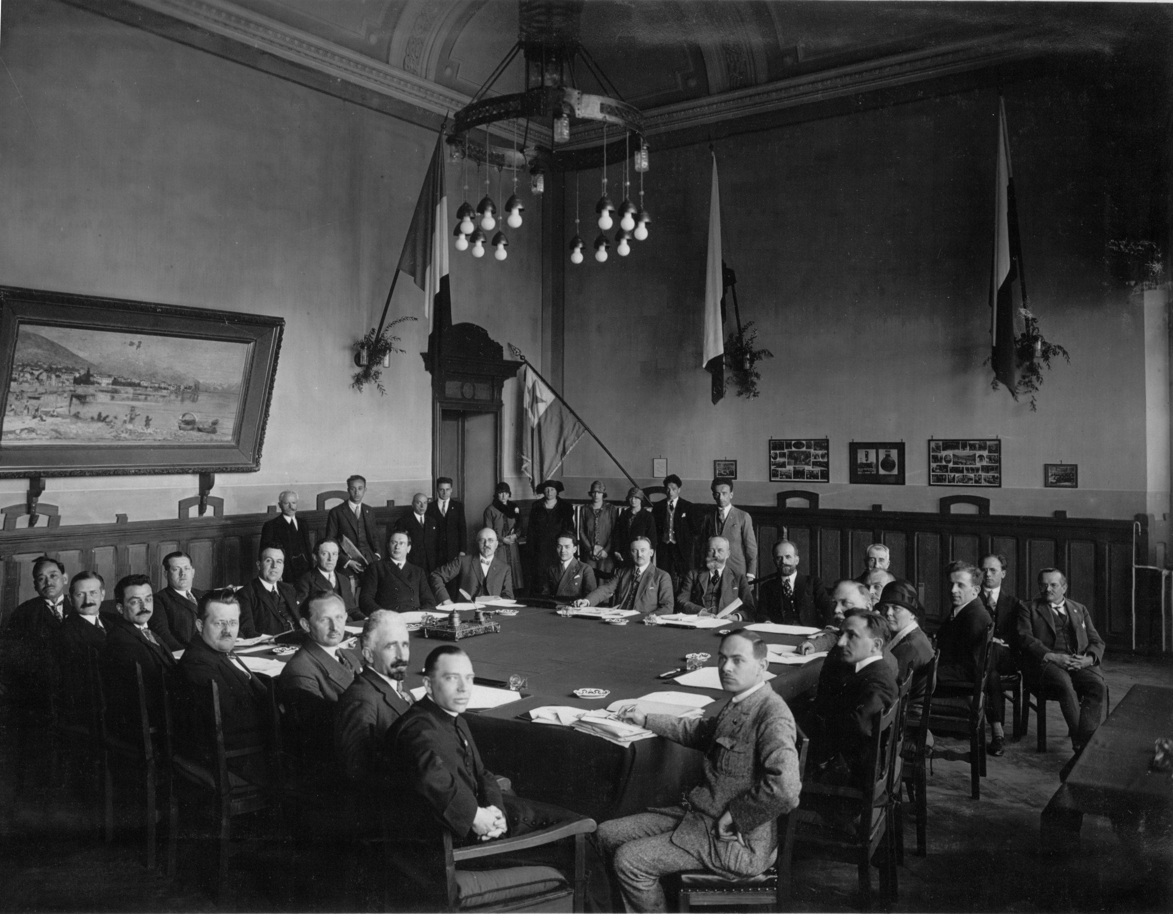 Meeting of Internacia Centra Komitato and Konstanta Reprezentantaro de la Naciaj Societoj (later: Universal Esperanto Association), Locarno (Switzerland), 1926. Front person, left: the priest Andreo Cseh. To his left, following the table: Carlo Gilá, Gustav Scholze, Rudolf Hromada, Frans Schoofs, Hugo Steiner, K. Nisximura, Robert Kreuz, Edmond Privat, Dr. Rusca (mayor of Locarno), Hans Jakob, G. Stroele, T. Morariu, A. Dubois, Johannes Dietterle, A. Stromboli, M. Rollet de l'Isle, Friedrich Ellersiek (nearly hidden), I. Rotkovicx (out of the row), Louis Bastien, Mrs. Blicher (?), Pál Balkányi (according to Enciklopedio de Esperanto, 1934, K/XVIII)